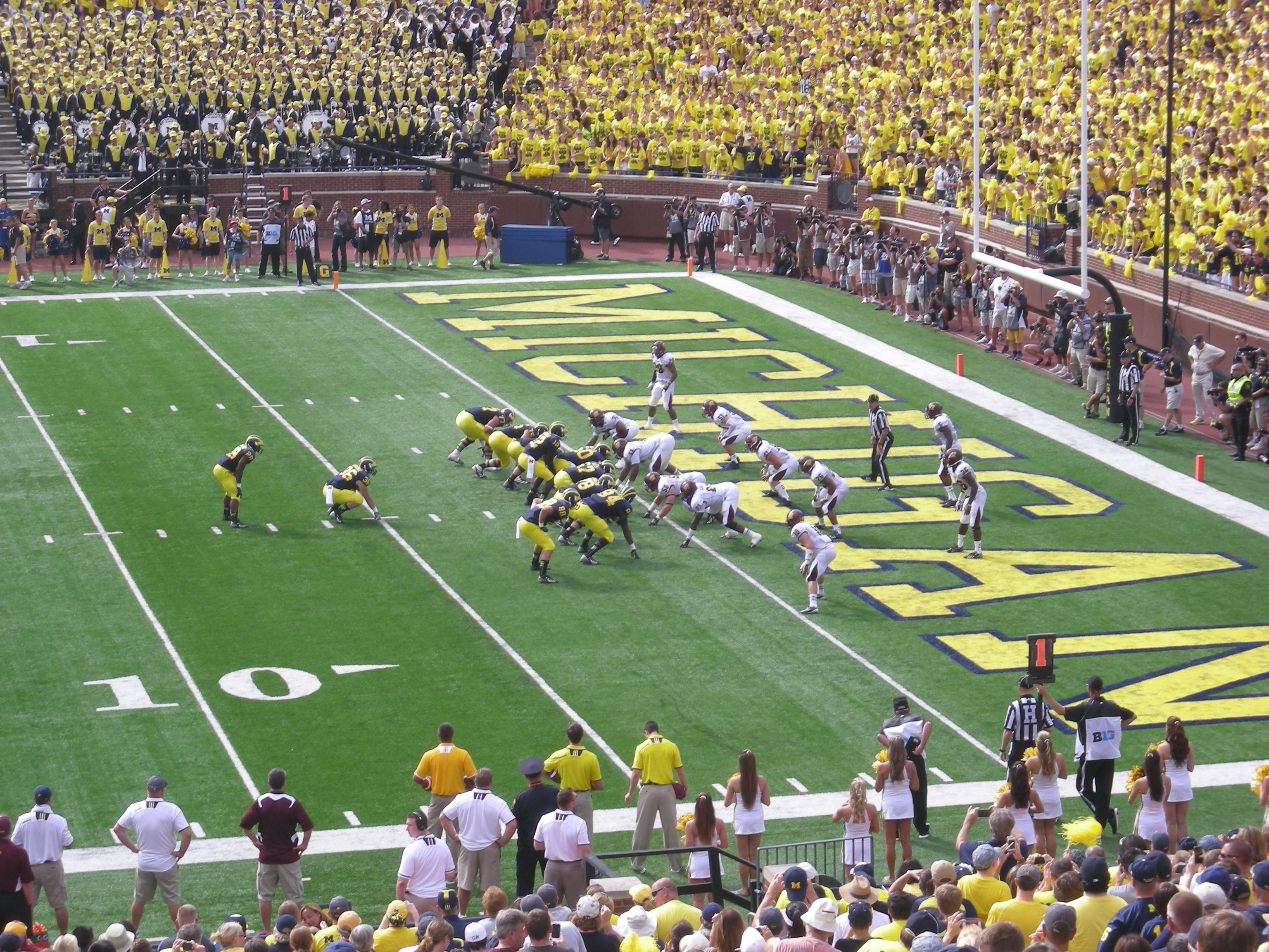 Michigan on offense during the Central Michigan Chippewas vs. Michigan Wolverines football game at Michigan Stadium in Ann Arbor, Michigan (United States). Michigan won 59–9.